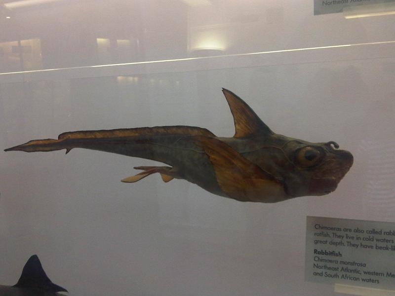 Rabbit fish or rat fish (Chimaera monstrosa) at the Natural History Museum in London, England.